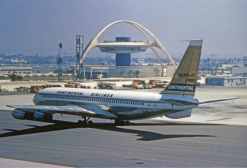 Continental Airlines Boeing 707 taxiing past theme building, Los Angles Intl Airport (LAX), ca. 1962. Theme Building in the background.